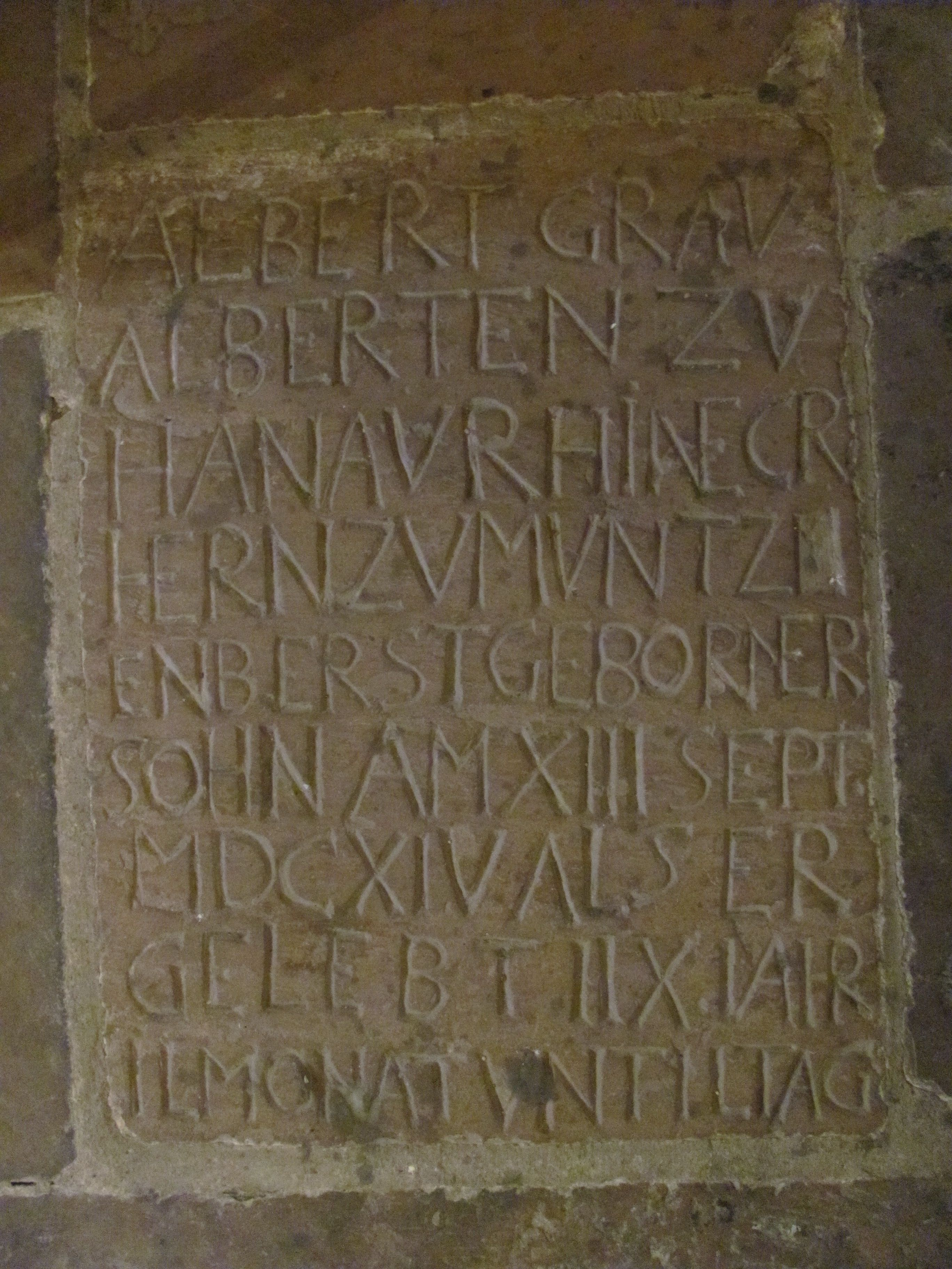 Tomb inscribtion of count Albert of Hanau-Münzenberg-Schwarzenfels in Schlüchtern monastry